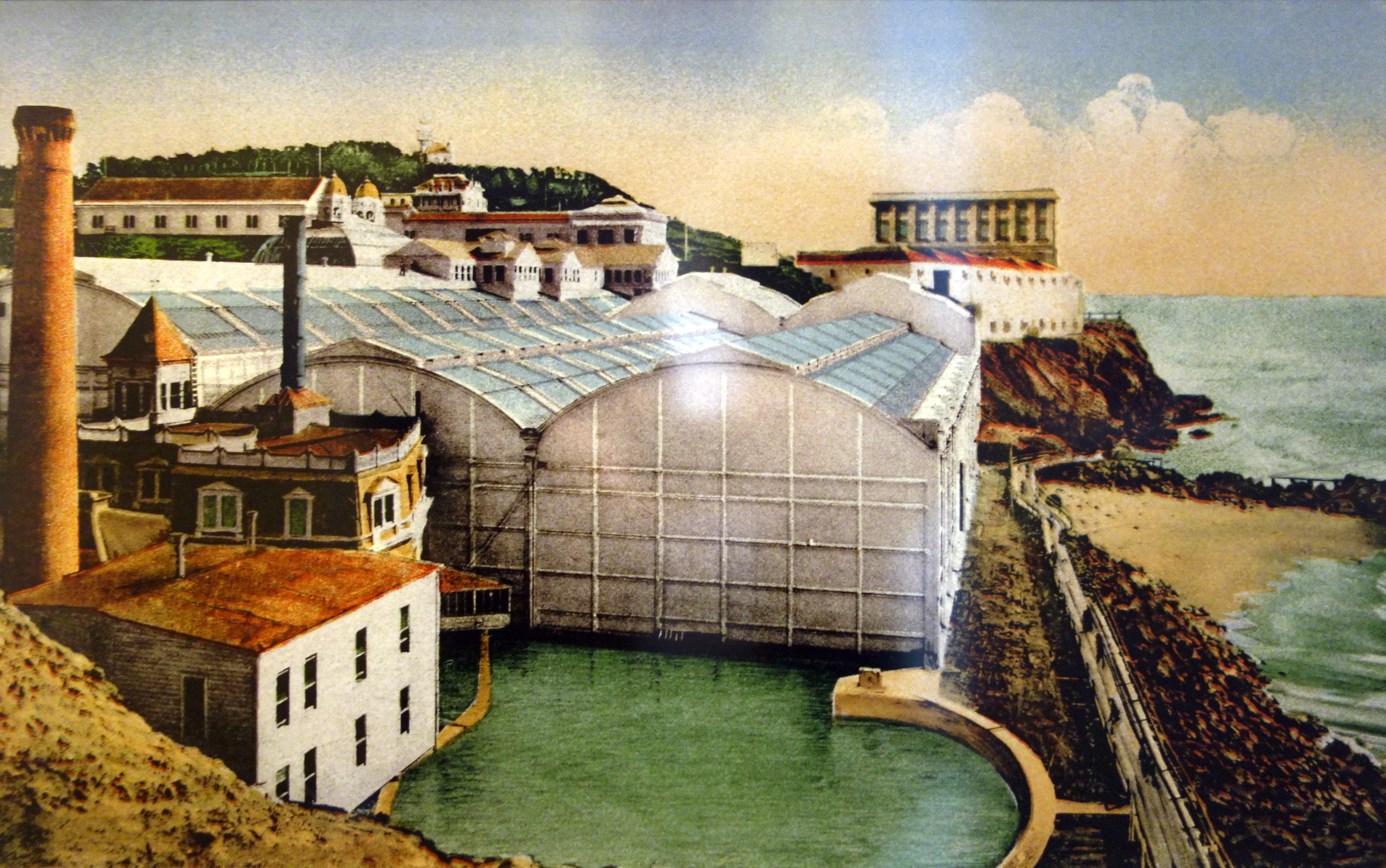 Sutro Baths - San Francisco, California, USA. This work was first published in the United States before 1923, and hence is in the public domain.